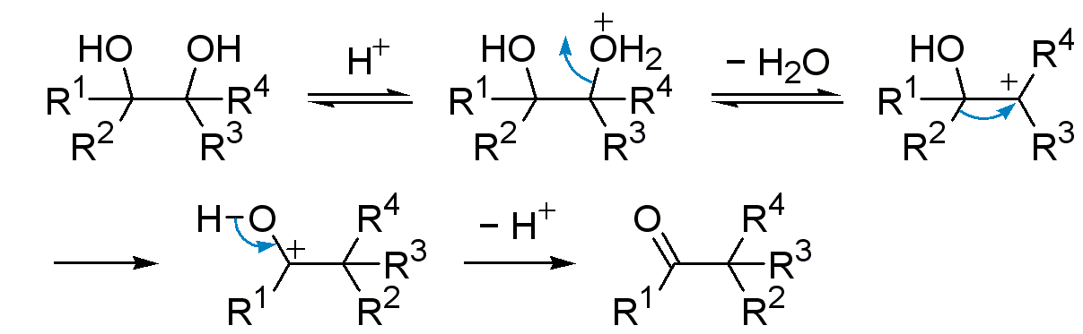 Selfmade with ChemDraw